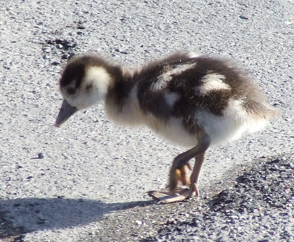 Egyptian Goose